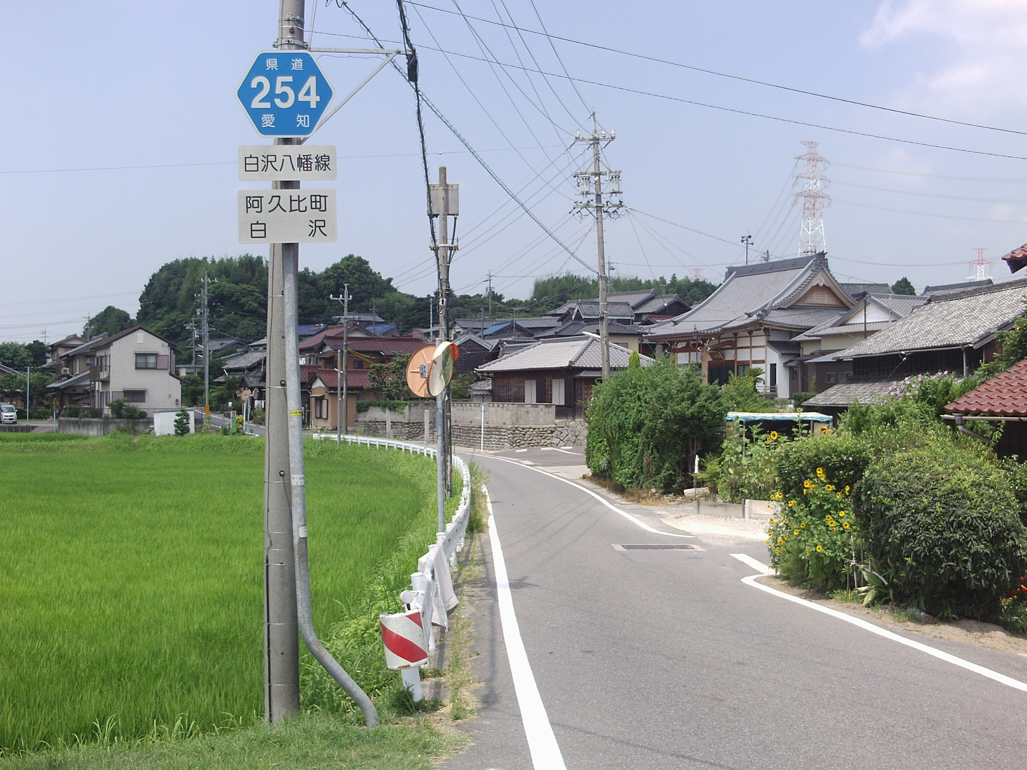 Aichi prefectural road No.254 in Shirasawa, Agui-cho, Chita-gun, Aichi.